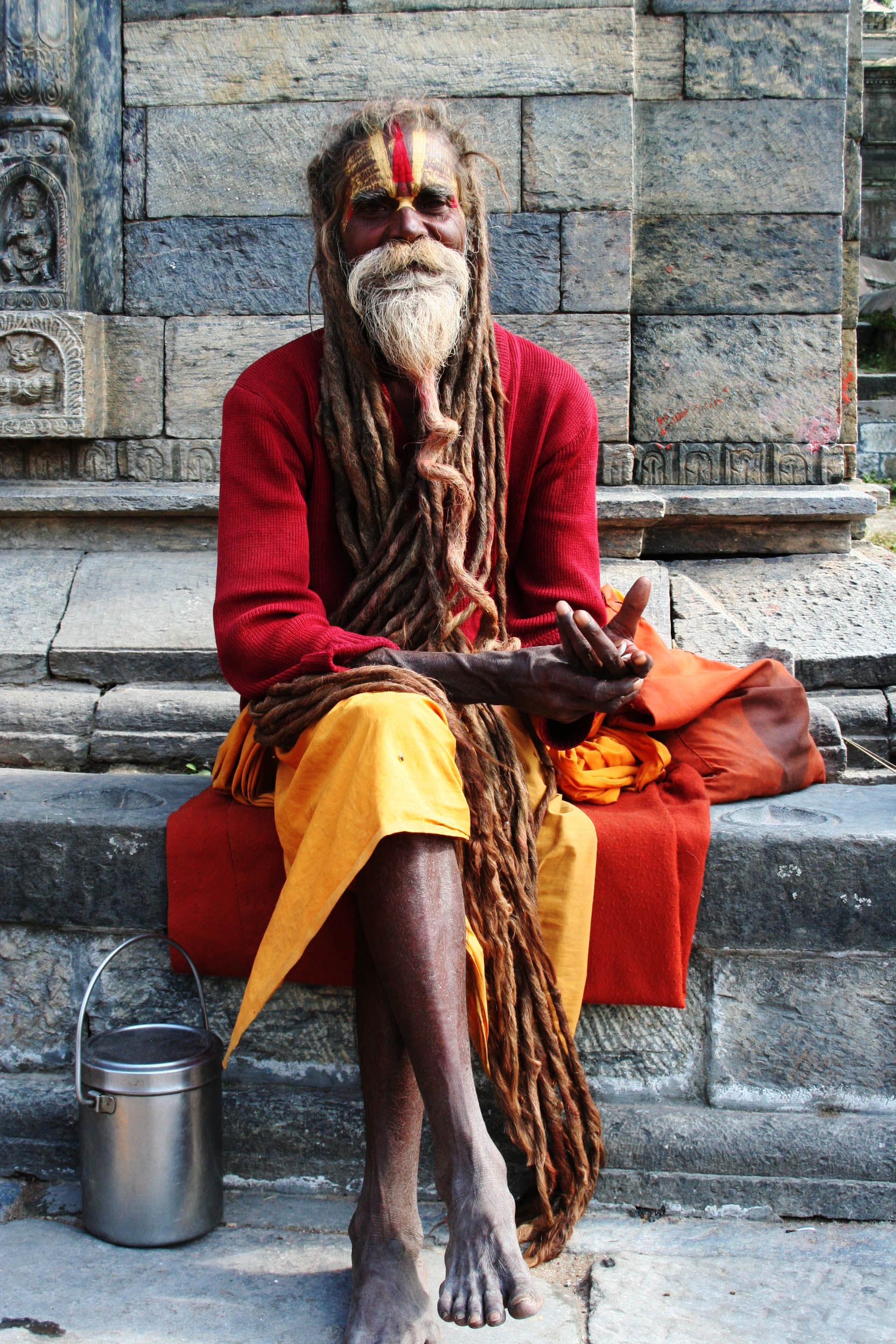 Sadhu with long dreadlocks, twisted beard, forehead markings, colourful clothes and tiffin box (metal container for food) next to him. Kathmandu, Nepal. Photography by the NGO medaptBaba in Kathmandu